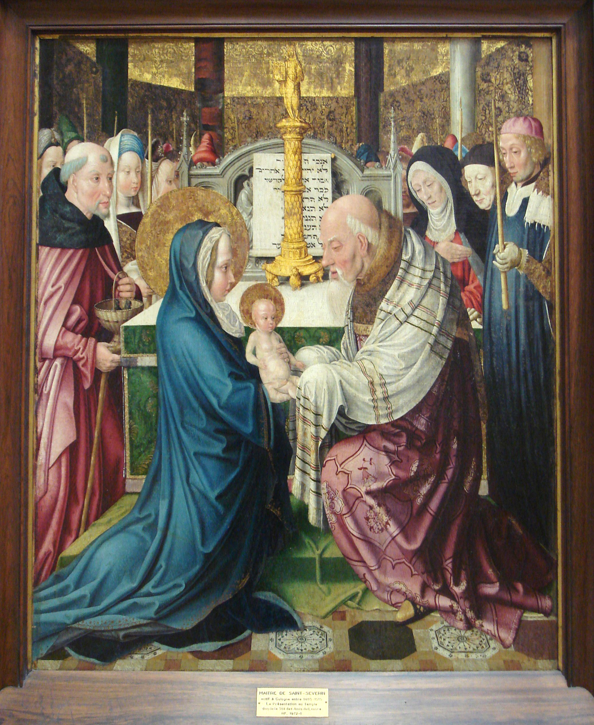 Maitre_de_Saint_Severin_Cologne_1465_1515_La_Presentation_au_Temple.